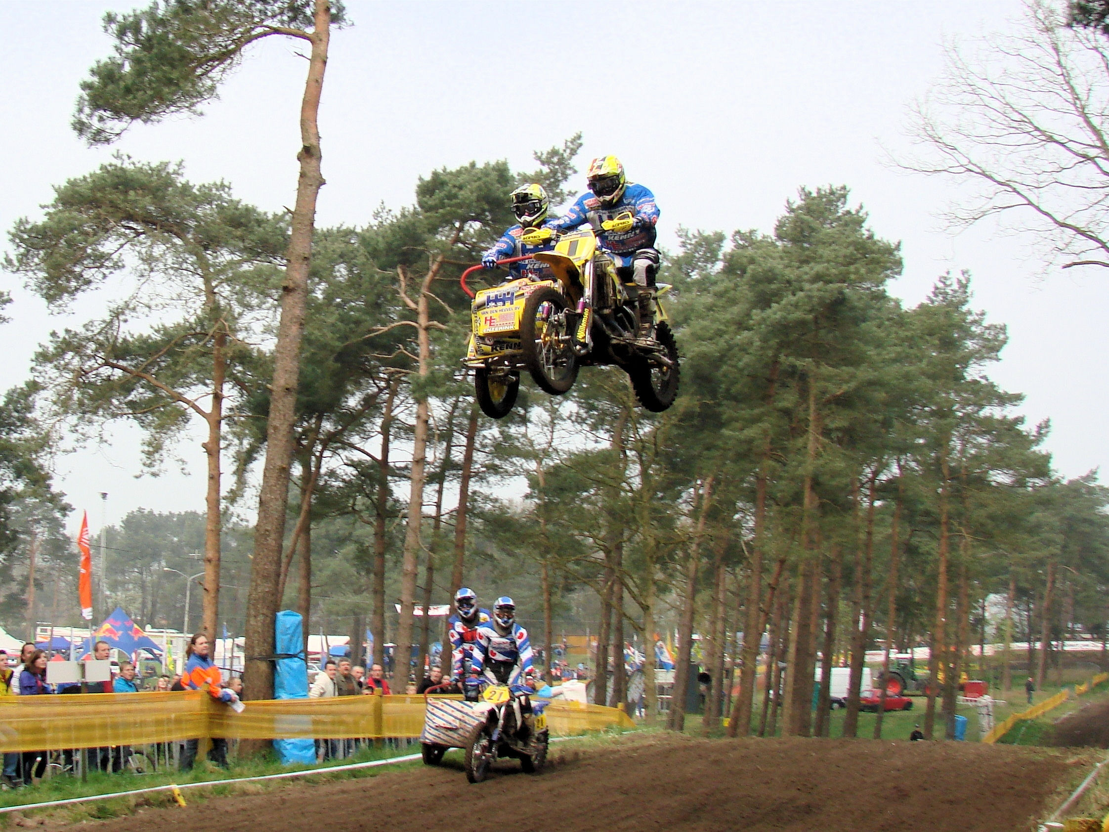 Daniel Willemsen High Jump